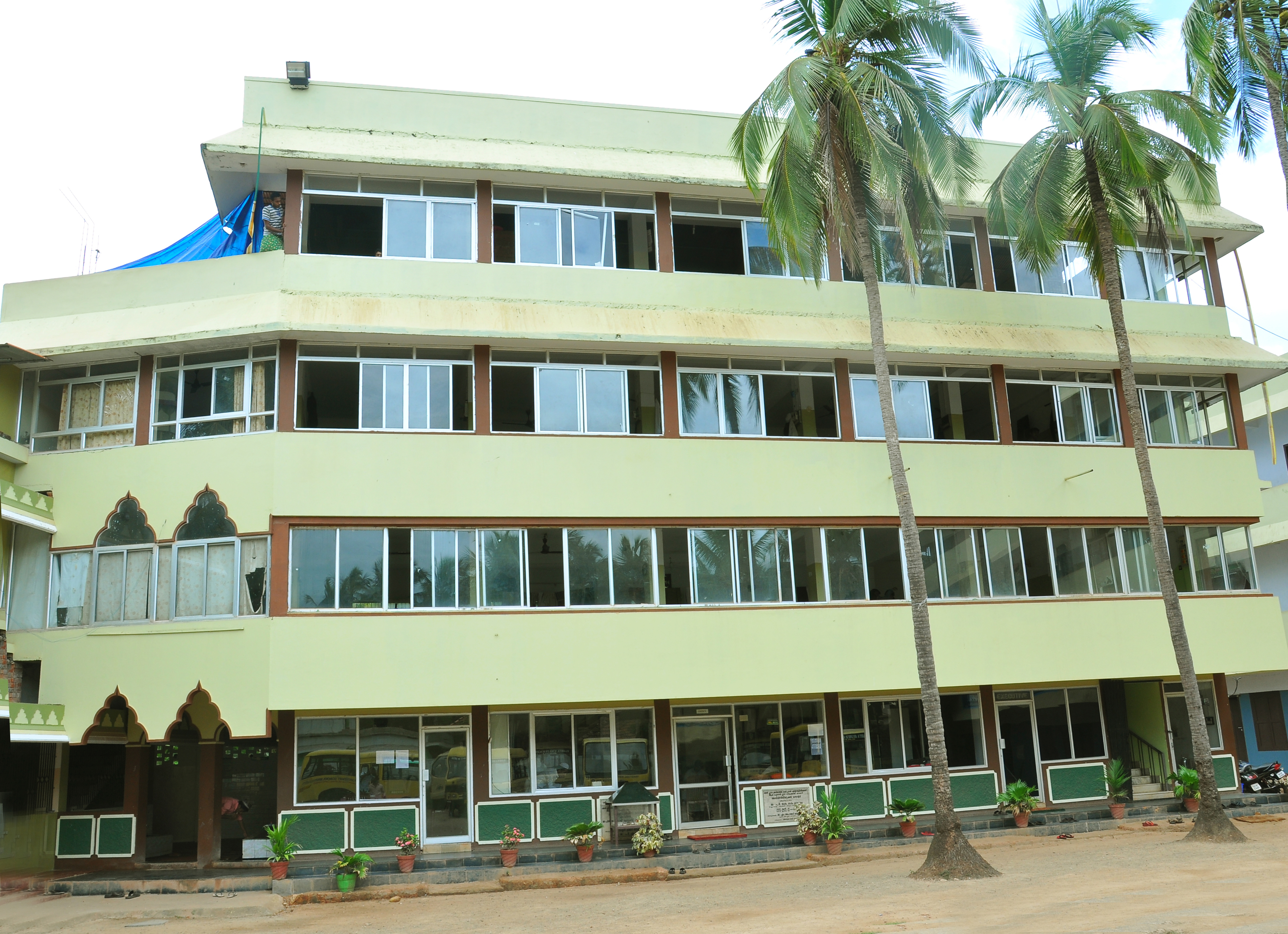 Khazi Kunhi Hasan Musliyar Islamic Academy